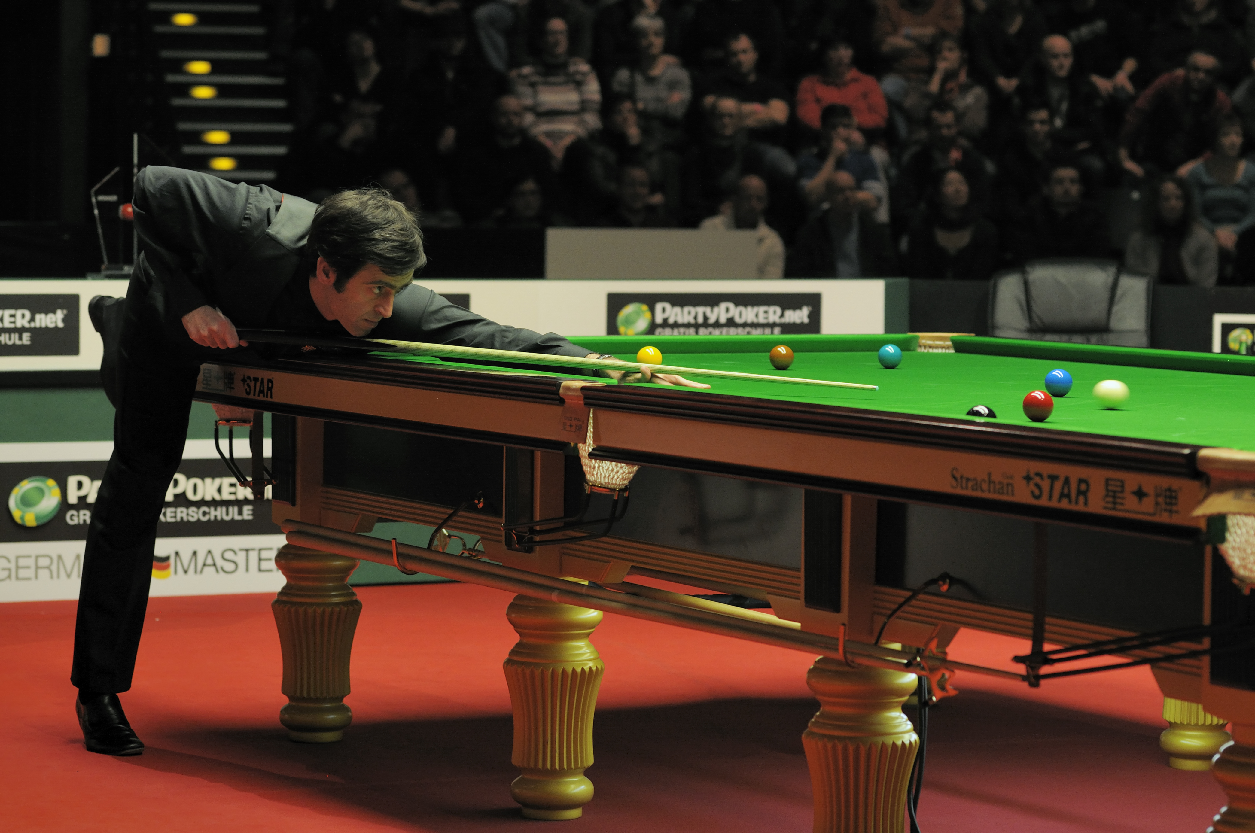 Picture taken in Berlin during the Snooker German Masters in 2011. Ronnie O’Sullivan.